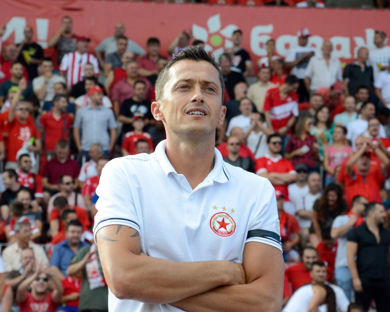 Hristo Yanev as a trainer of CSKA Sofia